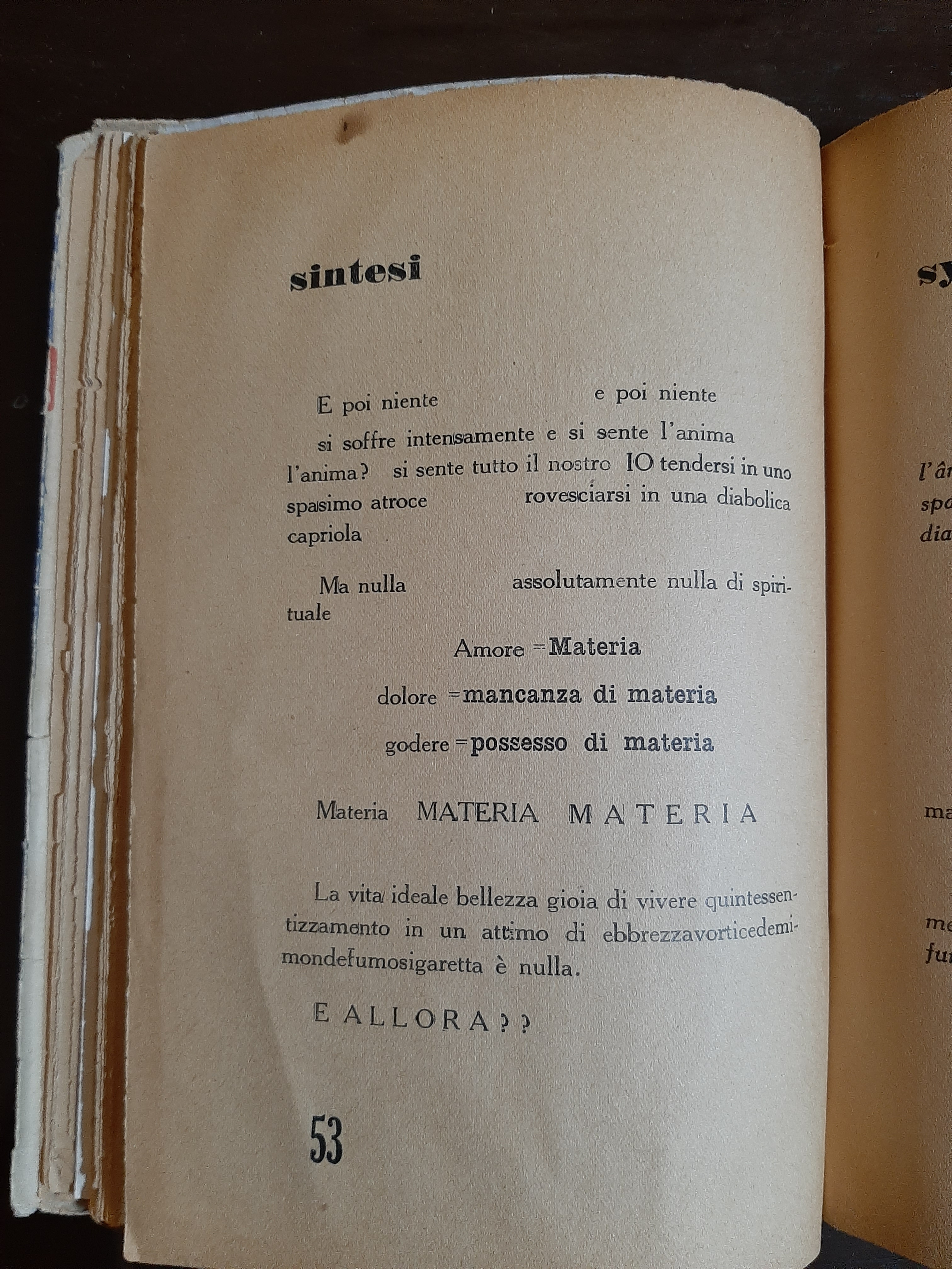 A page of a Futurist collection of poetry by Nelson Morpurgo. This page shows a poem entitled "sintesi".